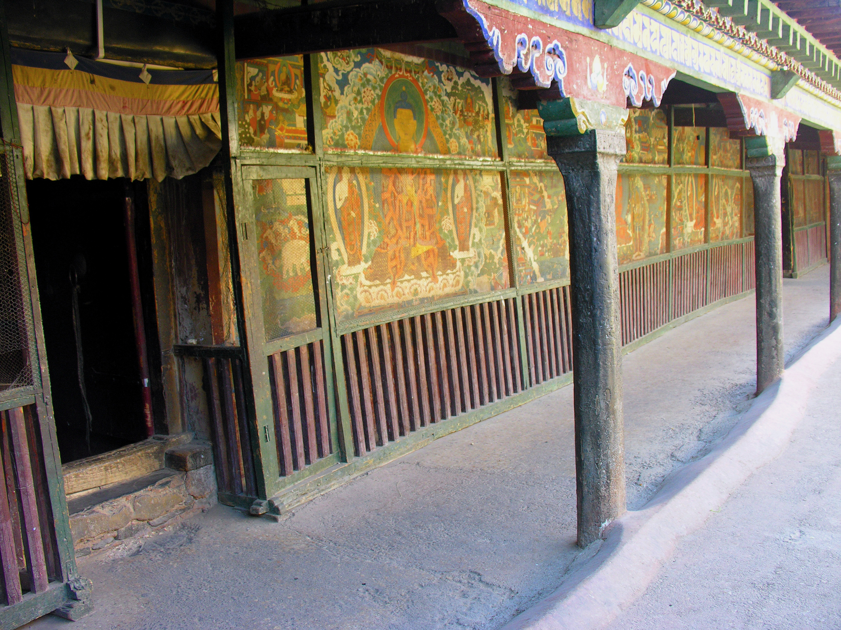 Another section of the monastery with murals on the wall. Baiju Monastery. Gyangtse, Tibet